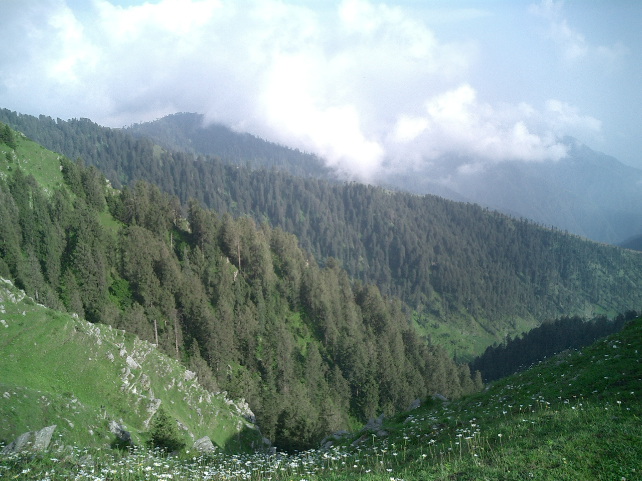 Himachal Pradesh hills, about 30km from Dalhousie, India; approx 31°N 76°E.